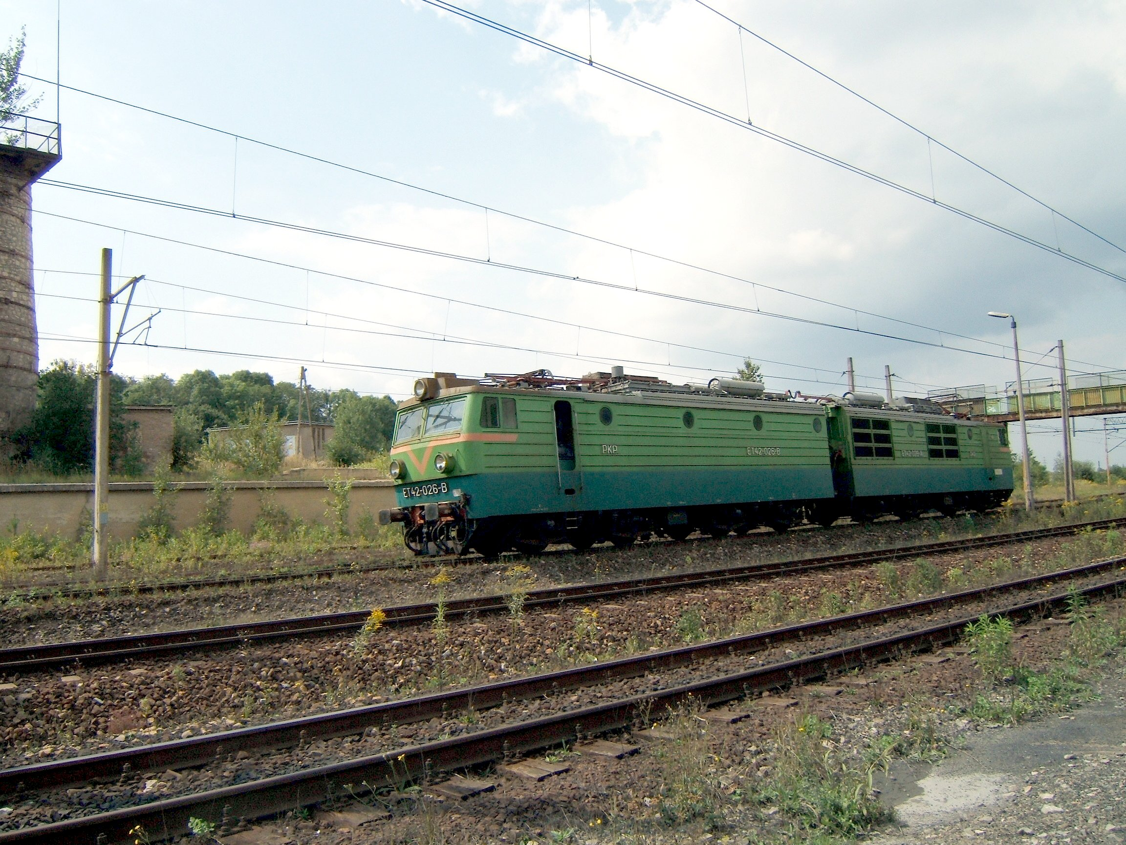 PKP class ET42-026 electric locomotive, seen in Nakło Śląskie, 27 August 2007.